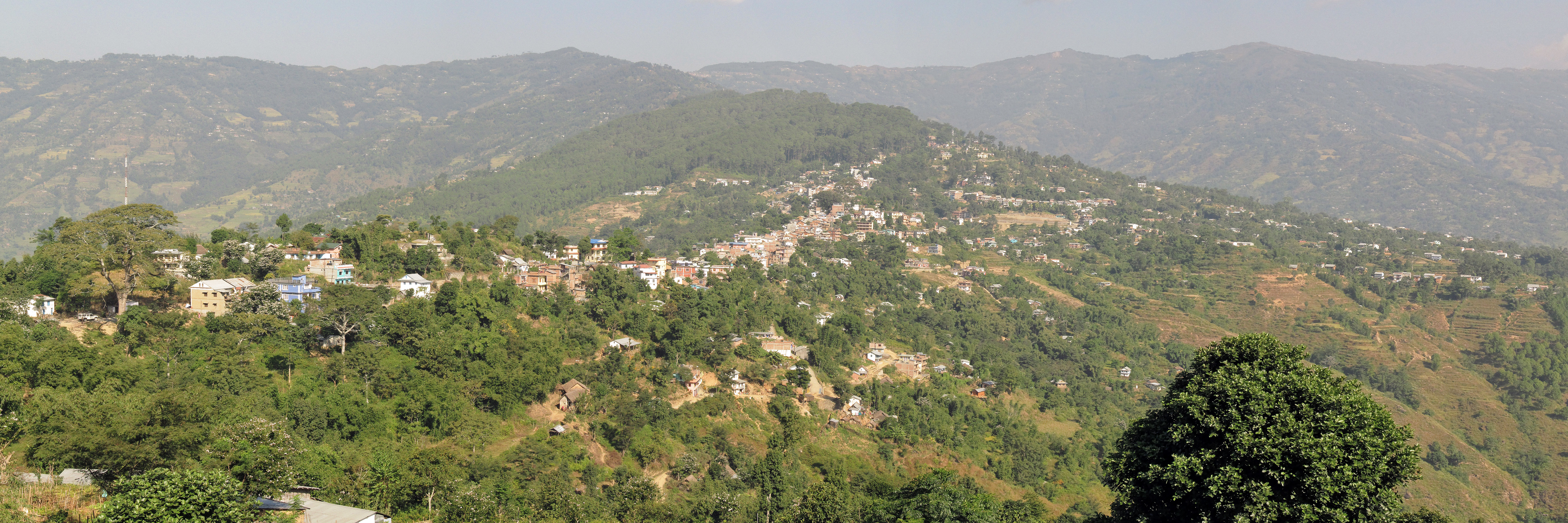 Looking north to Dhankuta bazaar from roof of house in Chuliban (26°57'47.06"N,87°20'50.38"E)